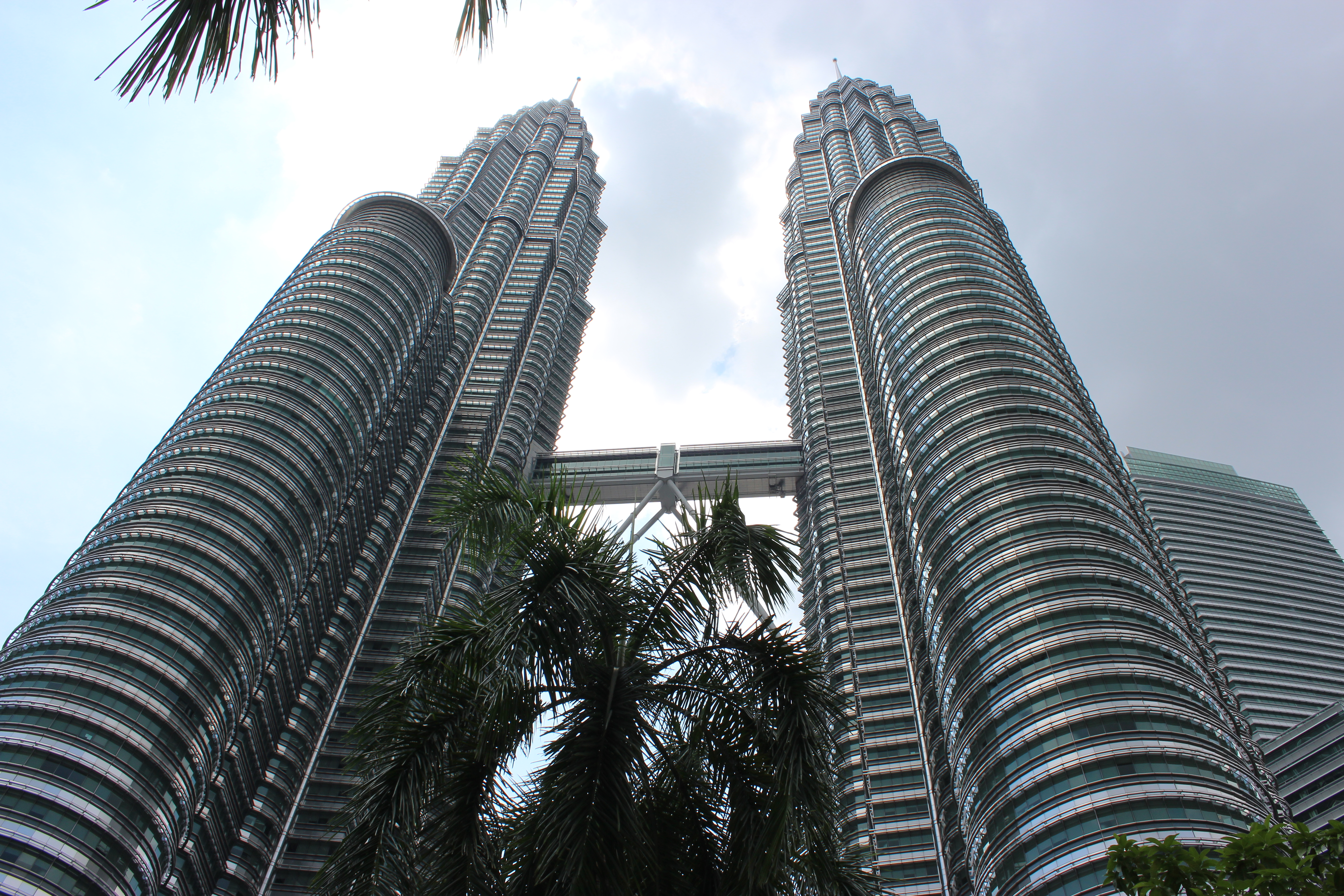 Petronas Towers, Kuala Lumpur, Malaysia